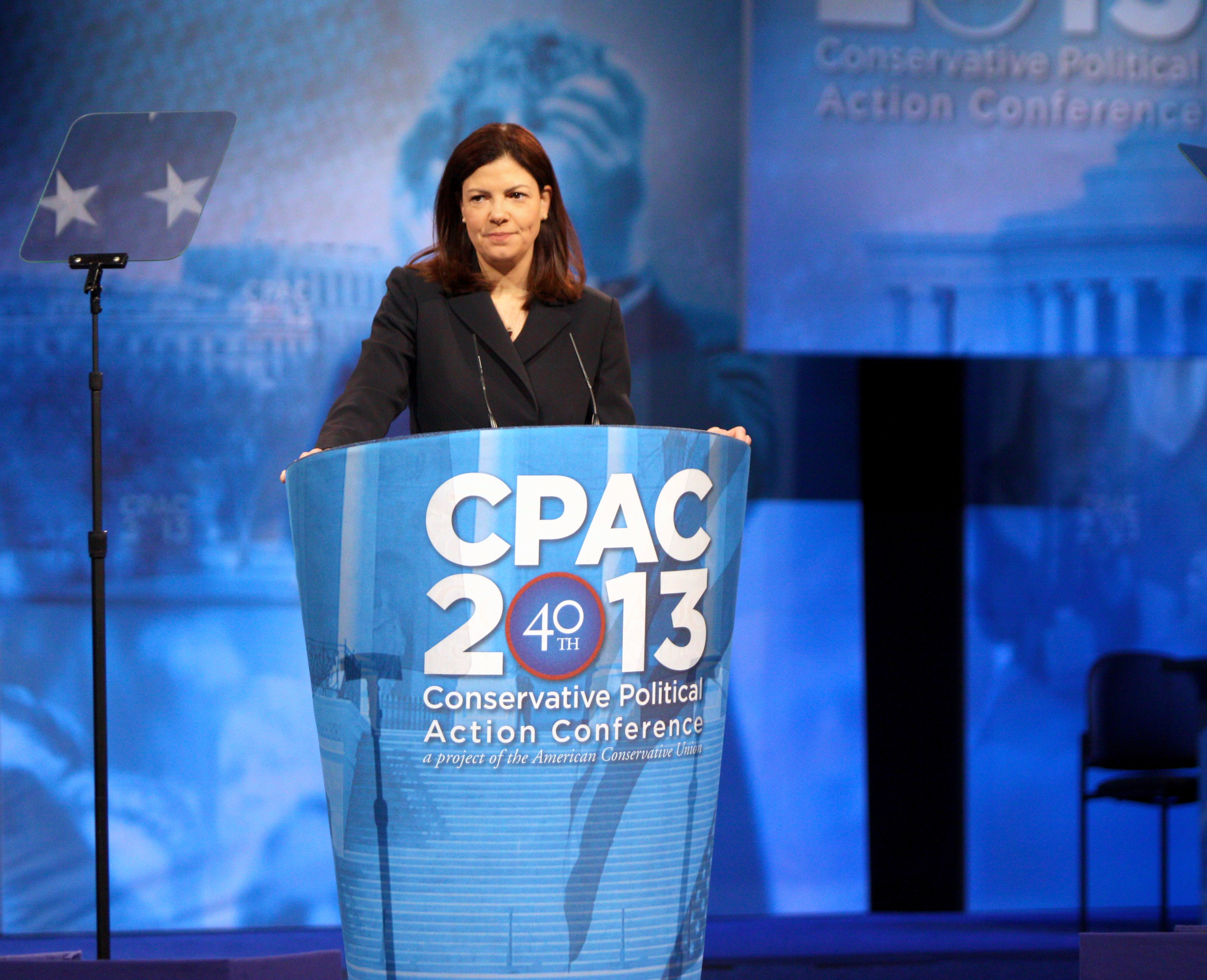 @ National Harbor, Maryland